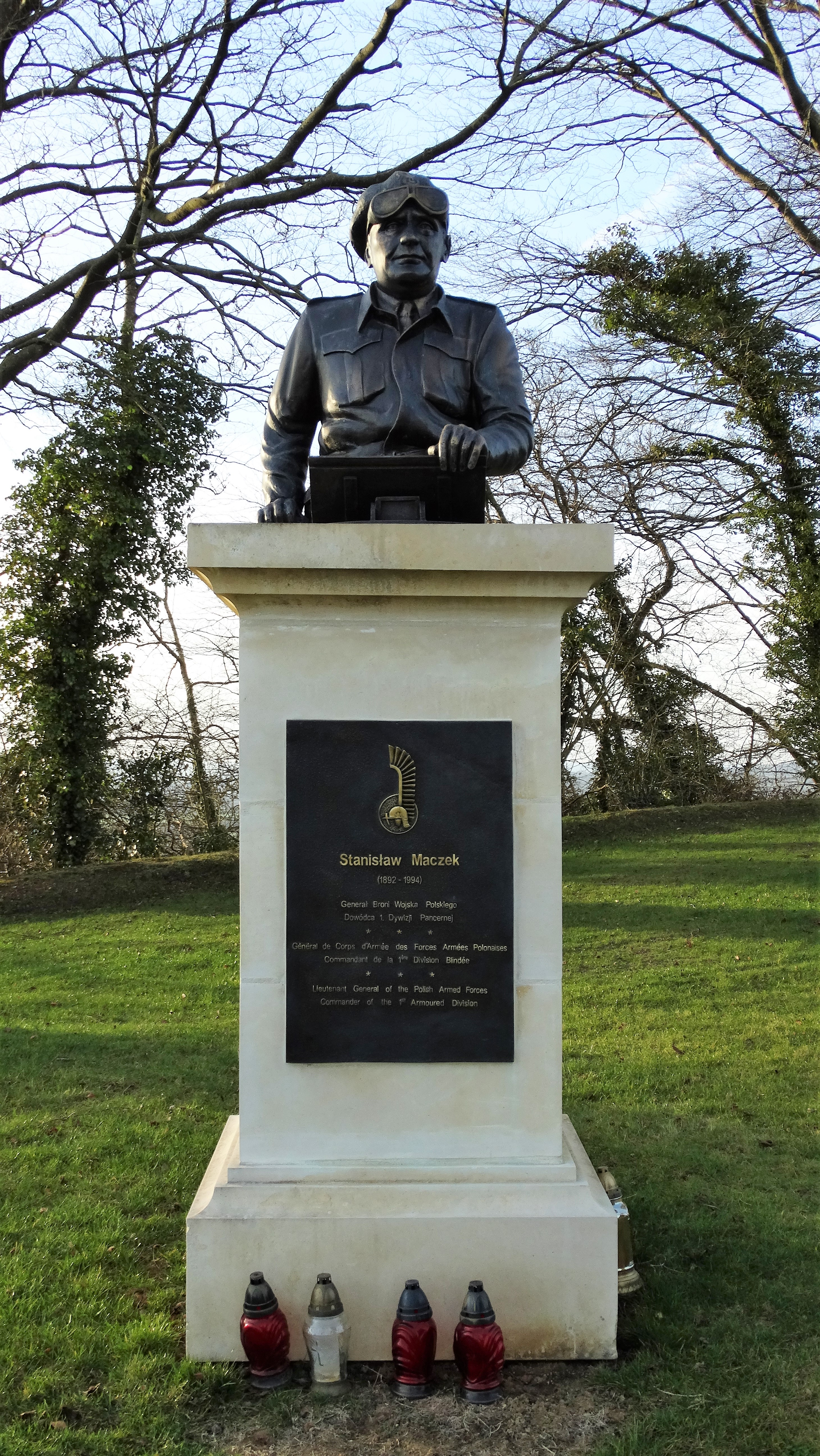 Bust of the Polish General Stanisław Maczek (1892-1994), commander of the First Polish Armoured Division, who led the victorious Allied forces in the Battle of Falaise in August 1944. Picture taken in the Coudehard-Montormel memorial in Normandy (France).